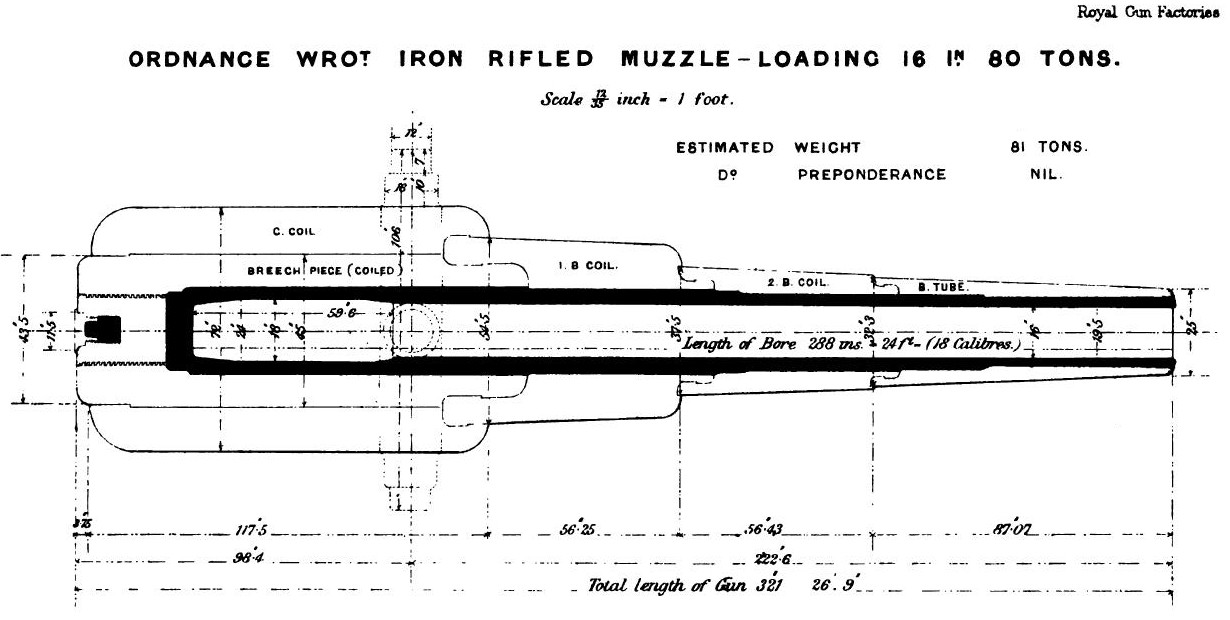 Diagram showing cross-section of barrel of British RML 16 inch 80 ton naval gun.